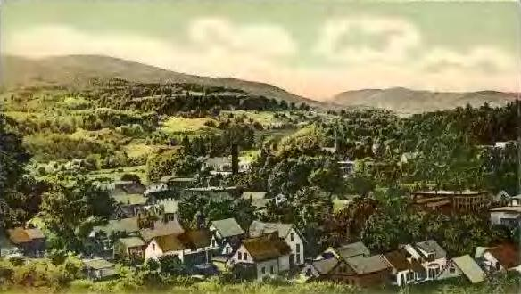 Ludlow, VT; from a 1906 postcard.